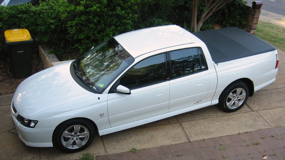 2003–2004 Holden VY II Crewman SS utility, photographed in Sydney, New South Wales, Australia.